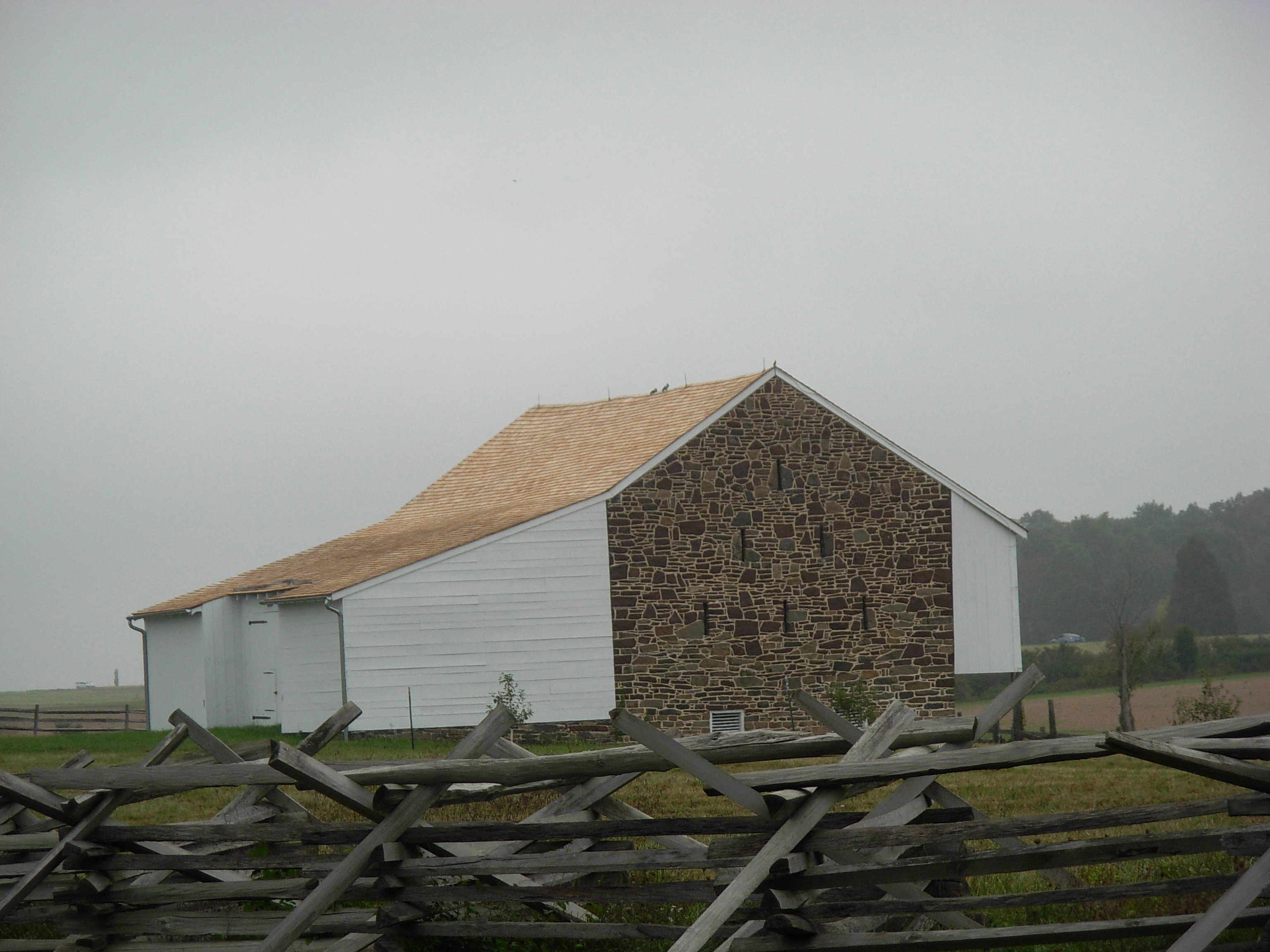 Gettysburg National Military Park and Gettysburg National Cemetery.